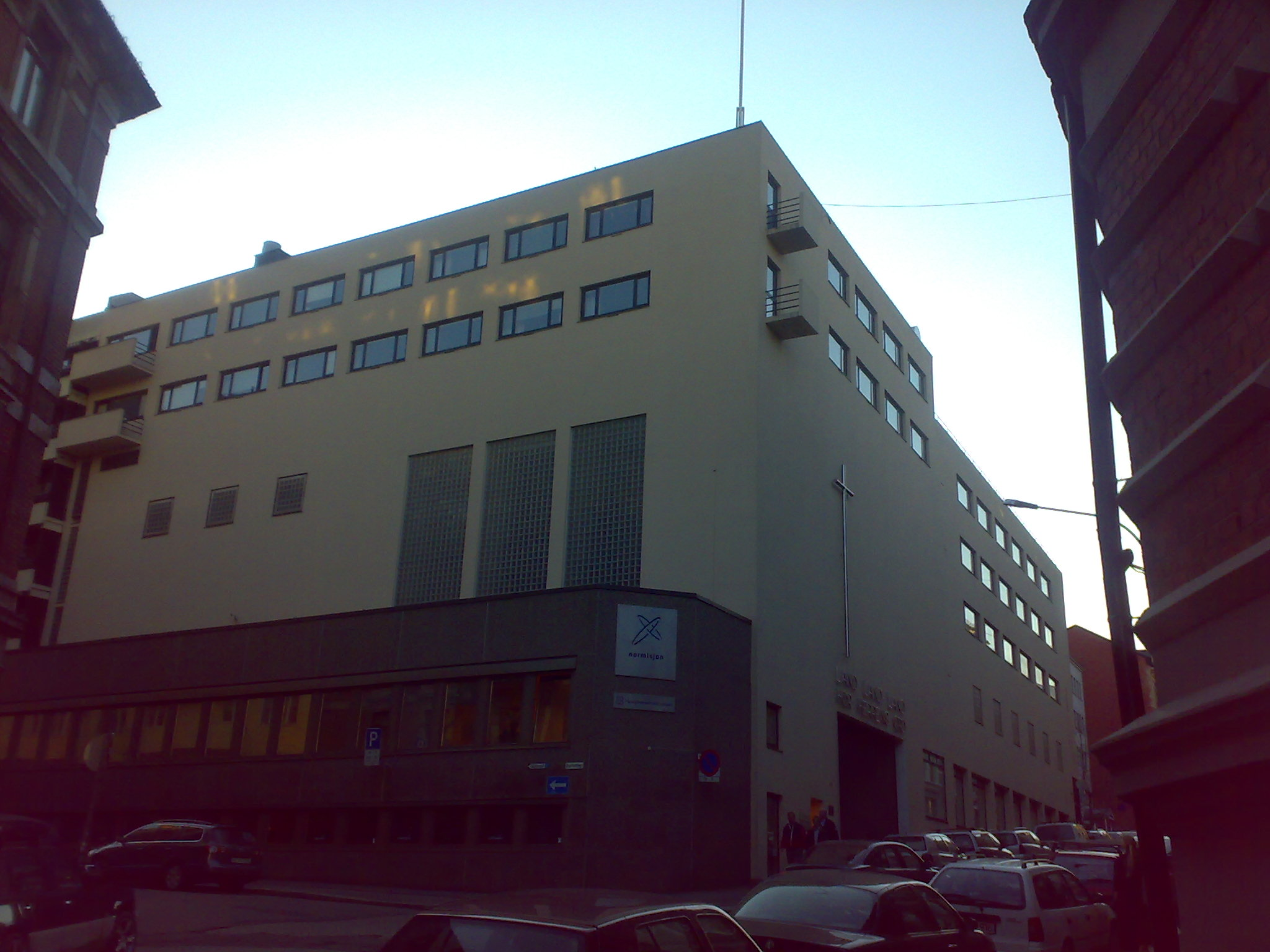 Storsalen Christian Missionary Congregation, Oslo, Norway